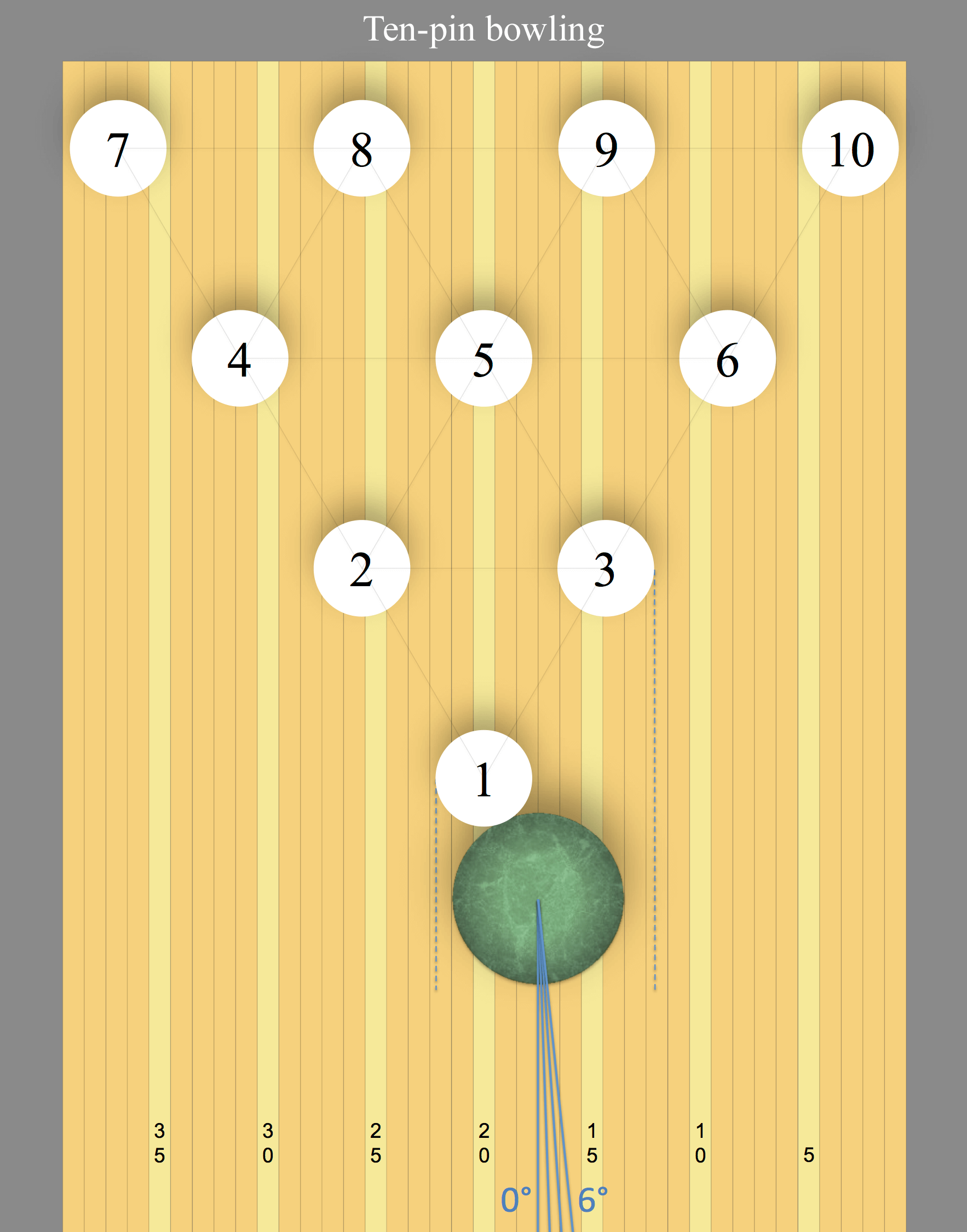 A ten-pin bowling rack with a bowling ball impacting the head pin while the ball is centered on "board 17.5", which is believed to be the impact point providing the greatest likelihood of striking. Diagram demonstrates that, contrary to common belief, the ideal "pocket" is not "between" the 1 and 3 pins. Diagram also demonstrates how pins other than pins 1 and 5 are not set on boards that are multiples of 5. Beginning with Version 3, diagram also shows entry angles of 0°, 2°, 4° and 6°. Object sizes and distances are intended to be to scale, though there is some tiny round-off error due to Microsoft Powerpoint's accepting only two digits to the right of the decimal point. NOTE RE FIRST AND SUBSEQUENT VERSIONS: Bowling ball is shifted from middle of Board 17 (Version 1) to the boundary between Boards 17 and 18 (Version 2) -- a half-board move to the left. Reason: there was ambiguity as to what "Board 17.5" means, so I uploaded versions for each interpretation. The 2009 USBC Pin Carry Study indicated peak strike likelihood at "2.5 inches offset", which indicates a point 2.5 inches right of center of the head pin (to the right of the center of board 20), which would imply that "Board 17.5" is actually the boundary between boards 17 and 18--as shown in the second version of this image. The strings on the lane in the picture on page 7 of the 2009 USBC Pin Carry Study PDF confirm that the second- and subsequently-uploaded versions are correct. Changes arriving at the third, fourth, etc. versions are relatively minute.